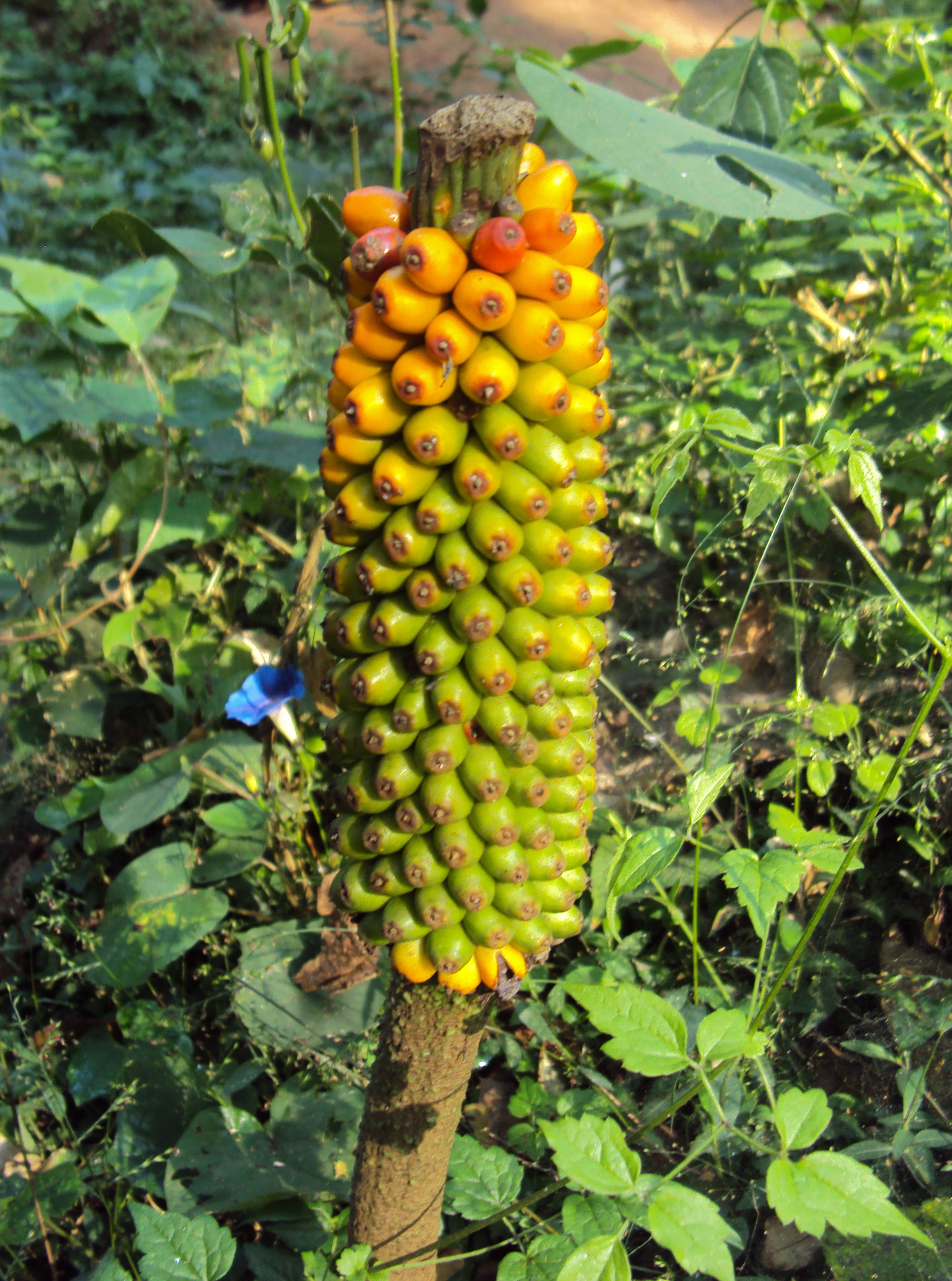 Amorphophallus Sylvaticus